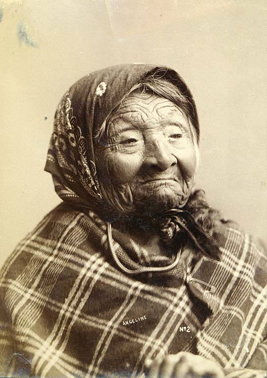 Angeline, daughter of Chief Seattle, ca. 1893 Photographer: La Roche, Frank Subjects (LCSH): Portraits--Washington (State) Angeline, Suquamish Indian, d.1896 Seattle, Chief, 1790-1866--Family Duwamish Indians Suquamish Indians Digital Collection: Frank La Roche Photograph Collection Item Number: LAR237 Persistent URL: Visit Special Collections page for information on ordering a copy. University of Washington Libraries. Digital Collections